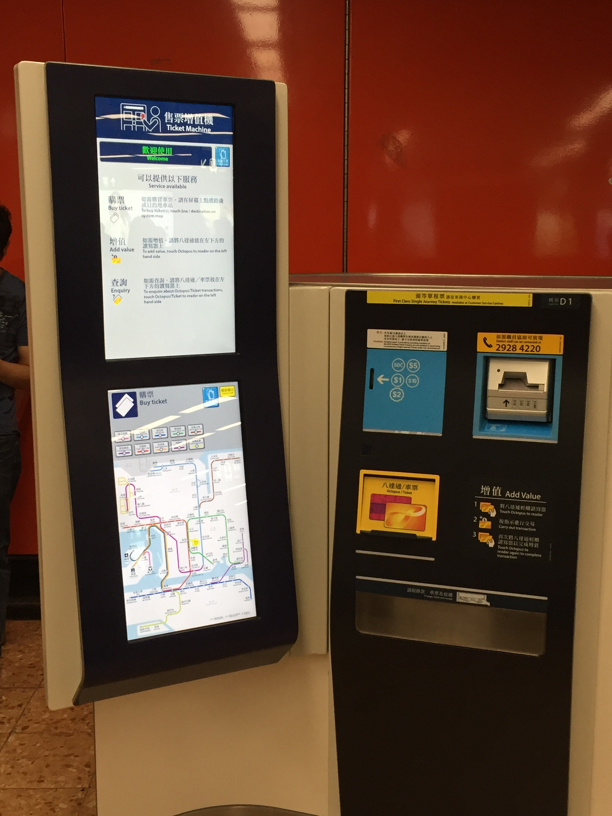 A new MTR ticket/Octopus purchase map inside Mongkok Station.